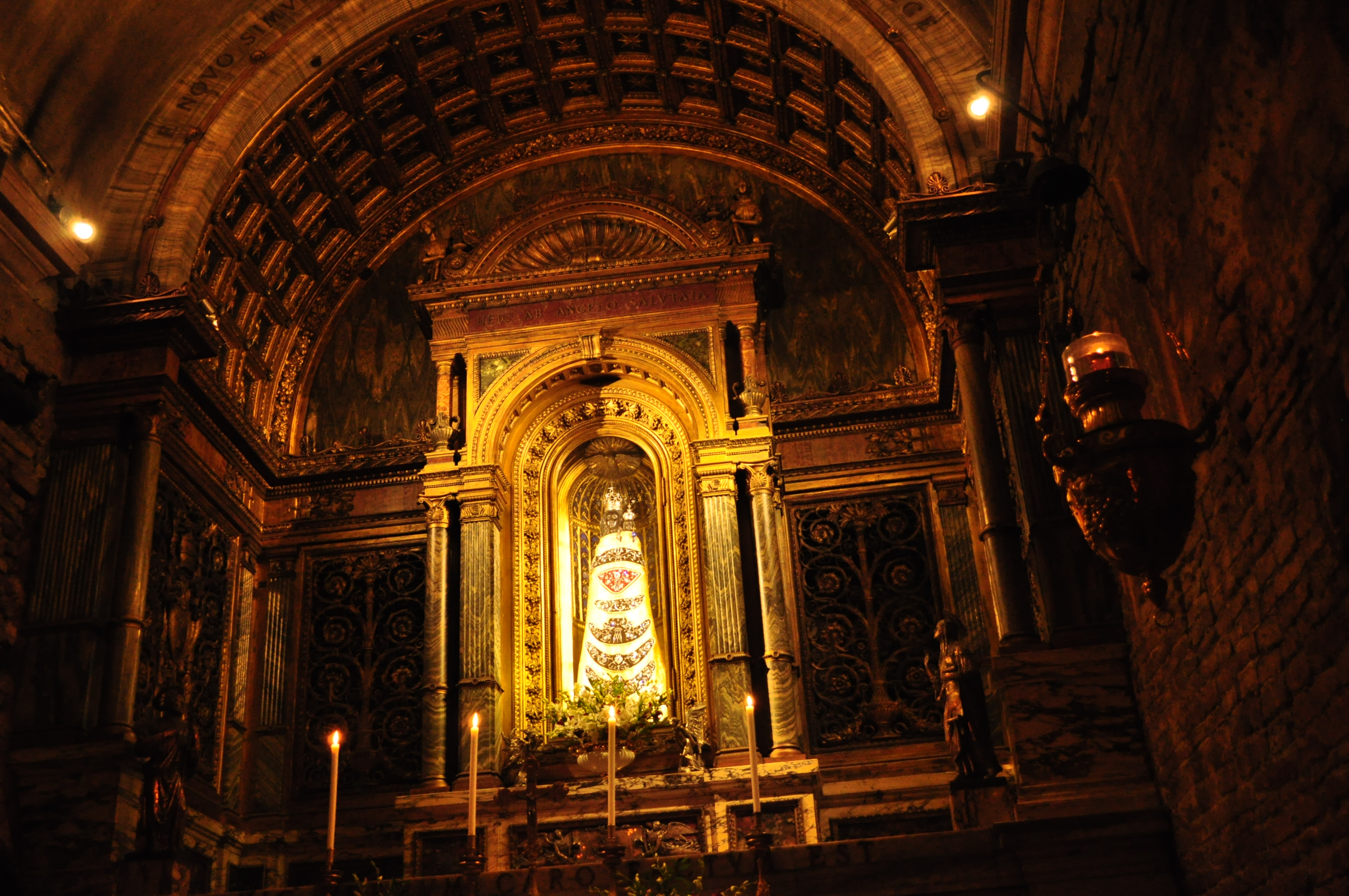 Statue of Our Lady of Loreto. Loreto, Italy